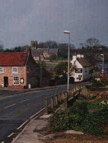 Sancton Main Road in Sancton, East Riding of Yorkshire, England.